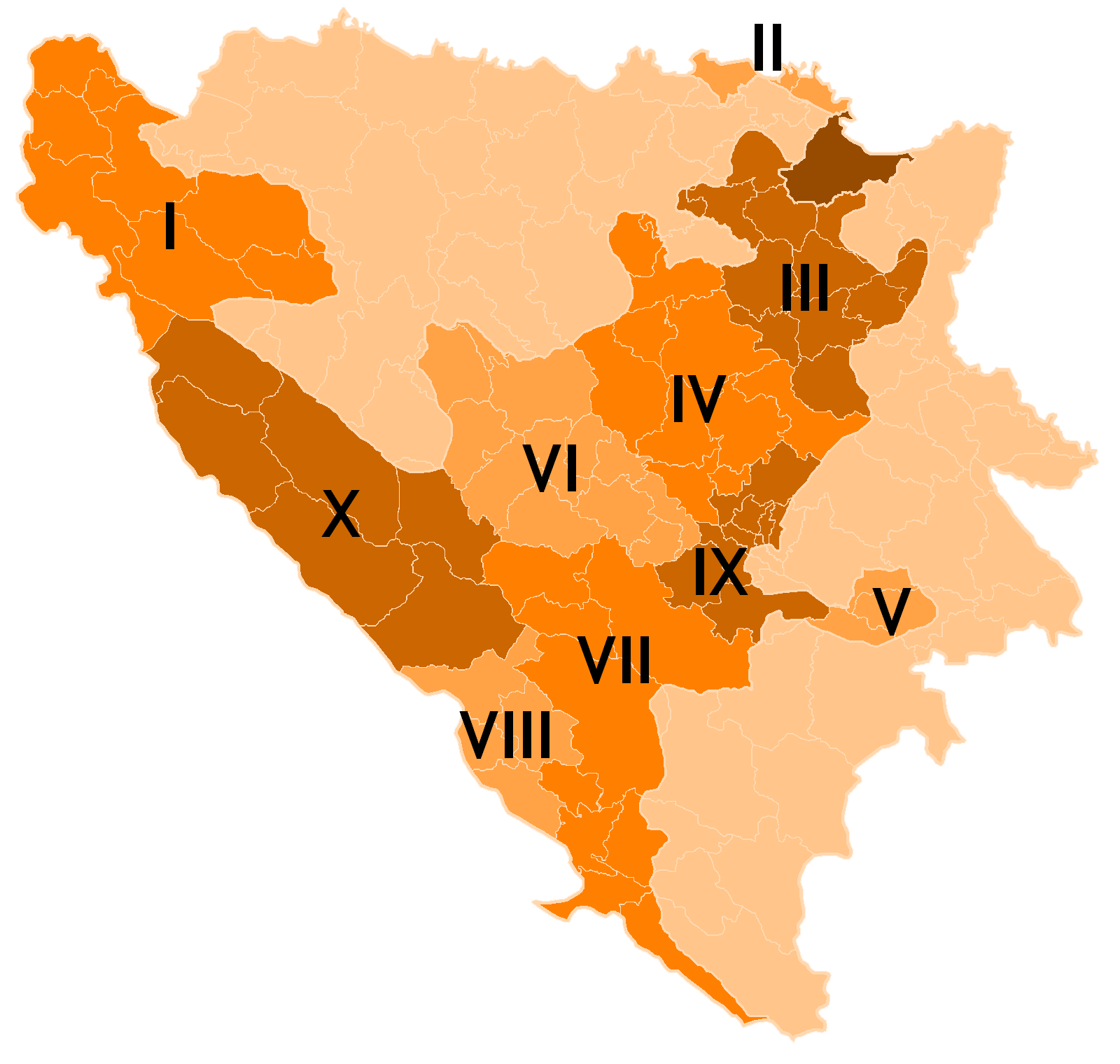 Bosnia and Herzegovina subdivision map Cantons